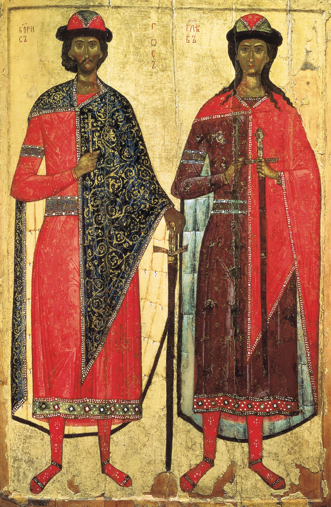 SS. BORIS AND GLEB. An early 14th-century icon from Mstera. Passed to the Russian Museum from the Nikolay Likhachyov Collection